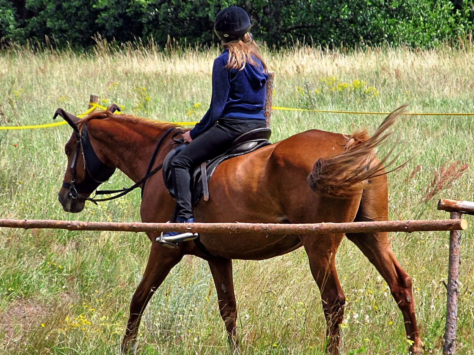 Horse riding lessons